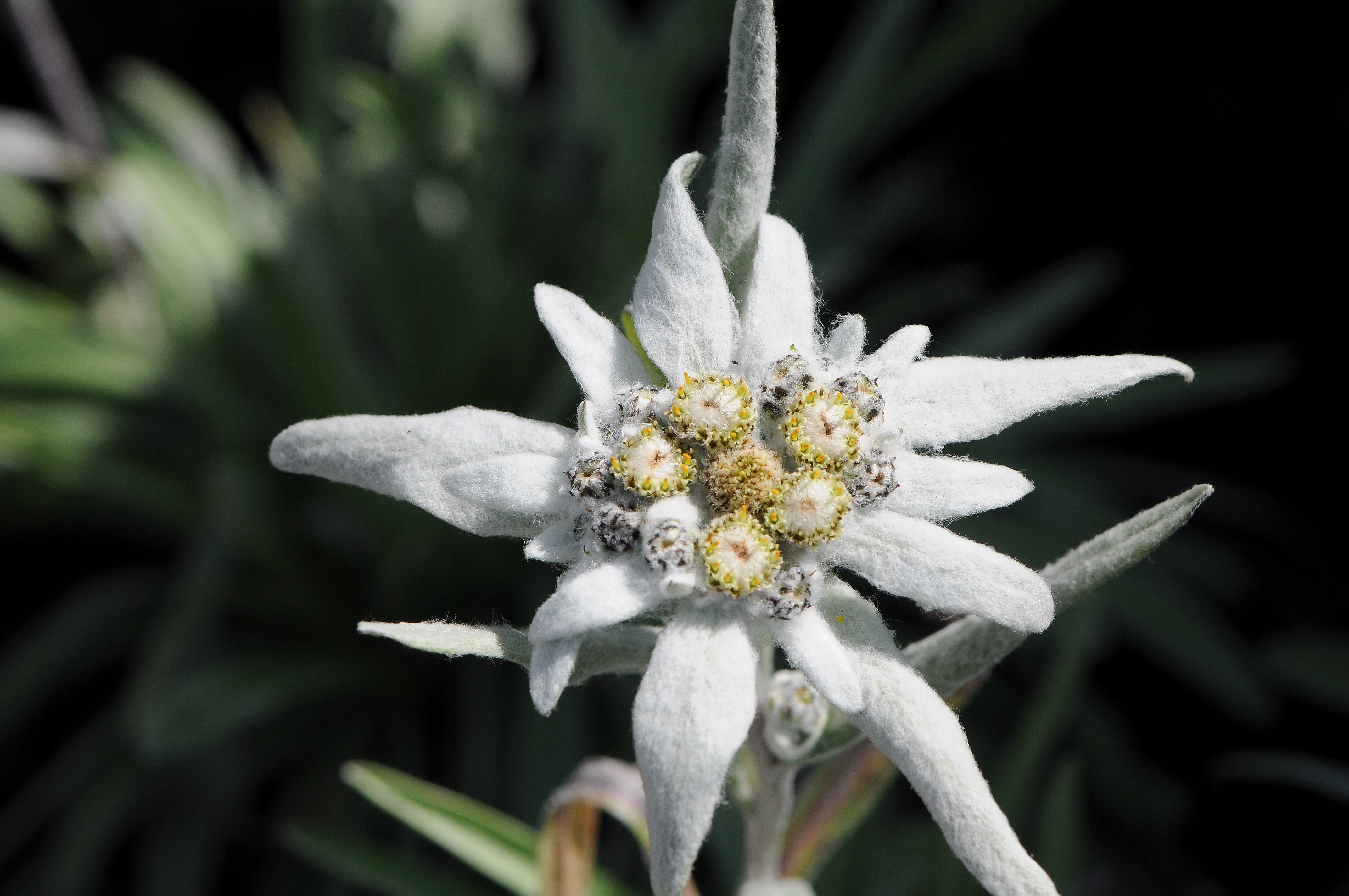 Edelweiss Leontopodium alpinum, is one of the best-known European mountain flowers, belonging to the sunflower family.